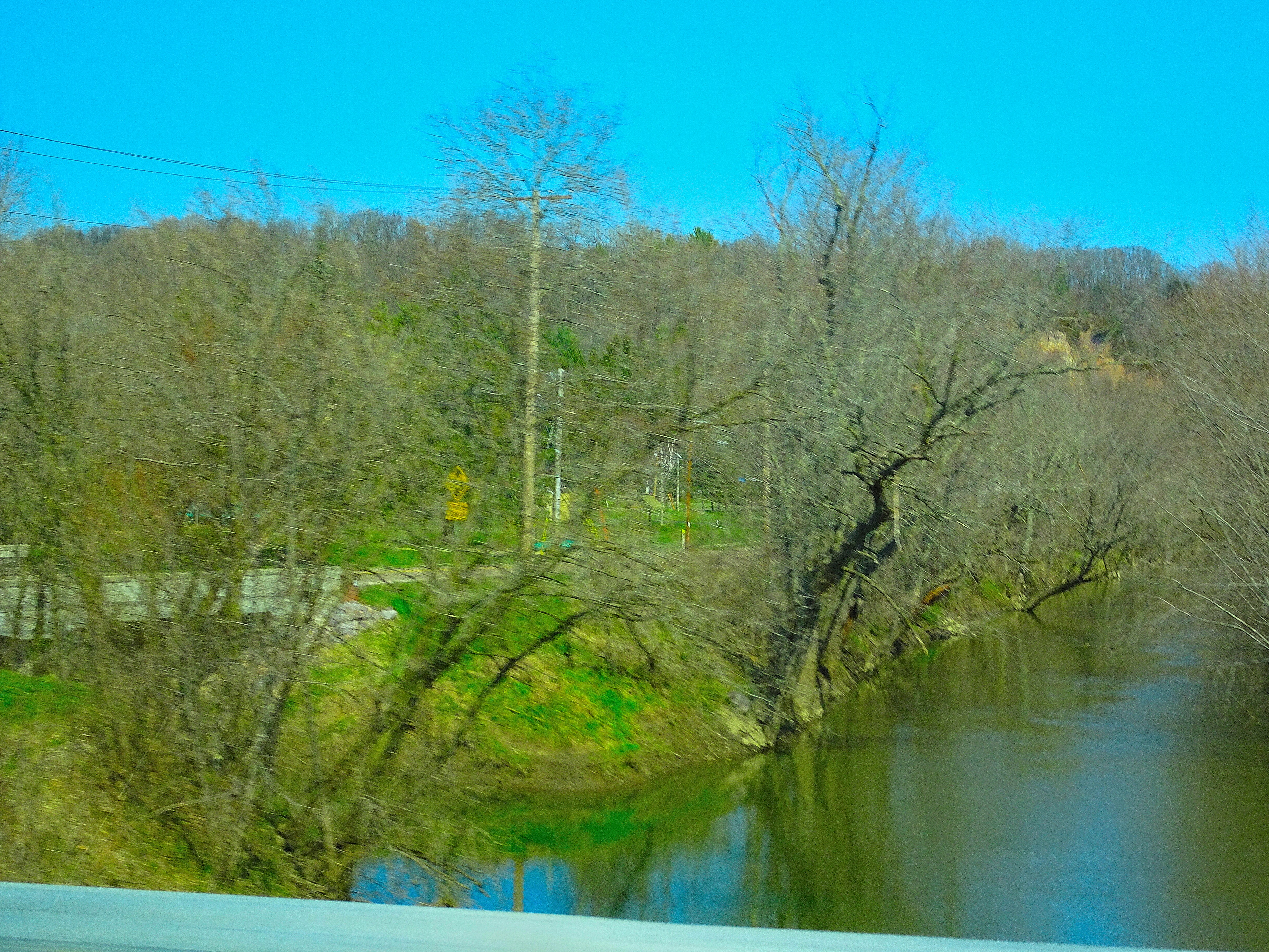 Baraboo River